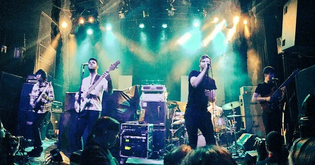 Live Photo